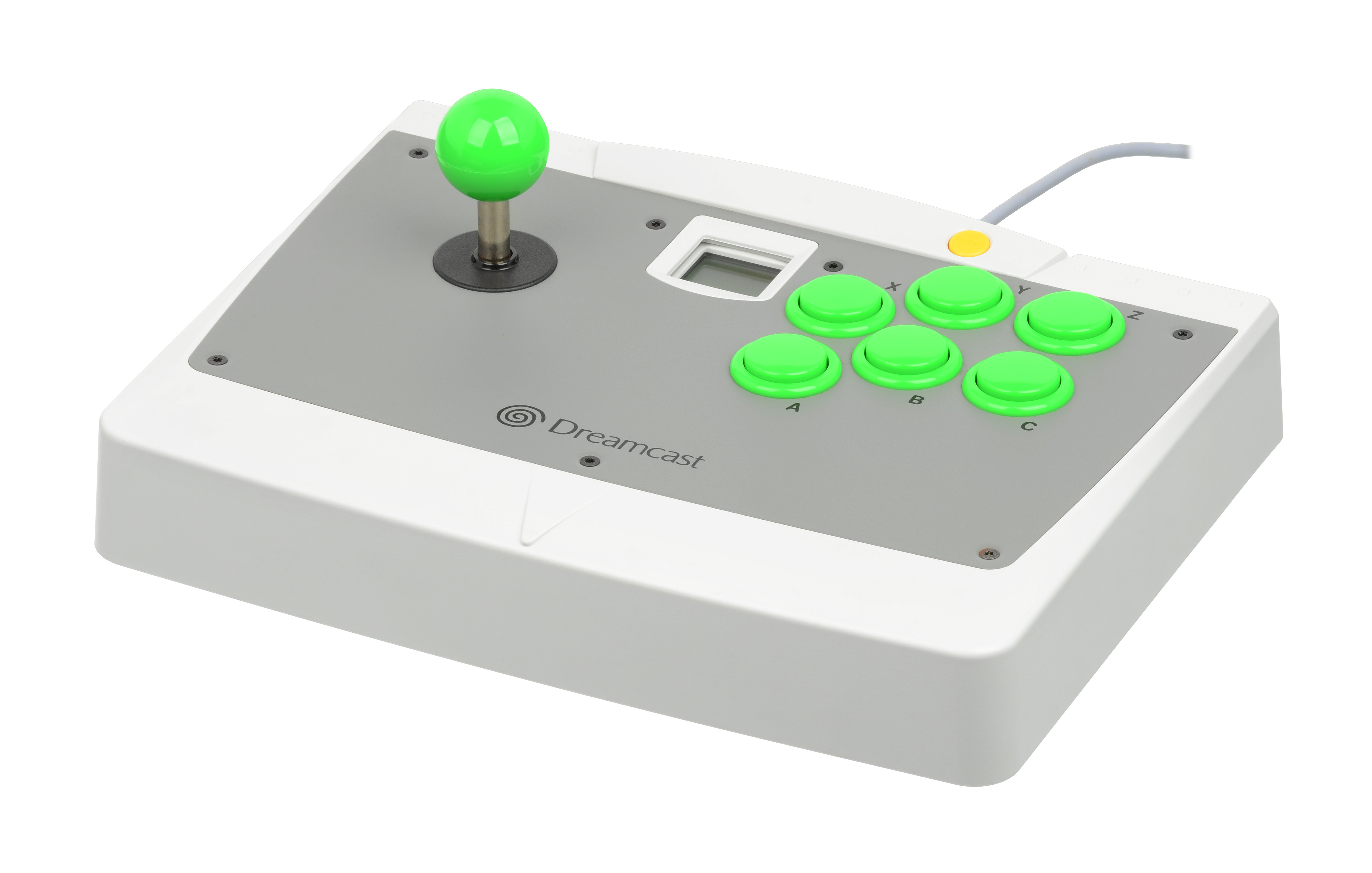 The official arcade stick controller for the Sega Dreamcast. Model number HKT-7300, this controller was built and made for fighting game enthusiasts. Made by Agetec, it features micro-switch buttons and a metal base.